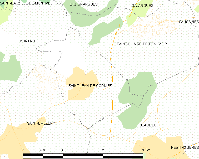 Map commune FR insee code 34265.png - Saint-Jean-de-Cornies